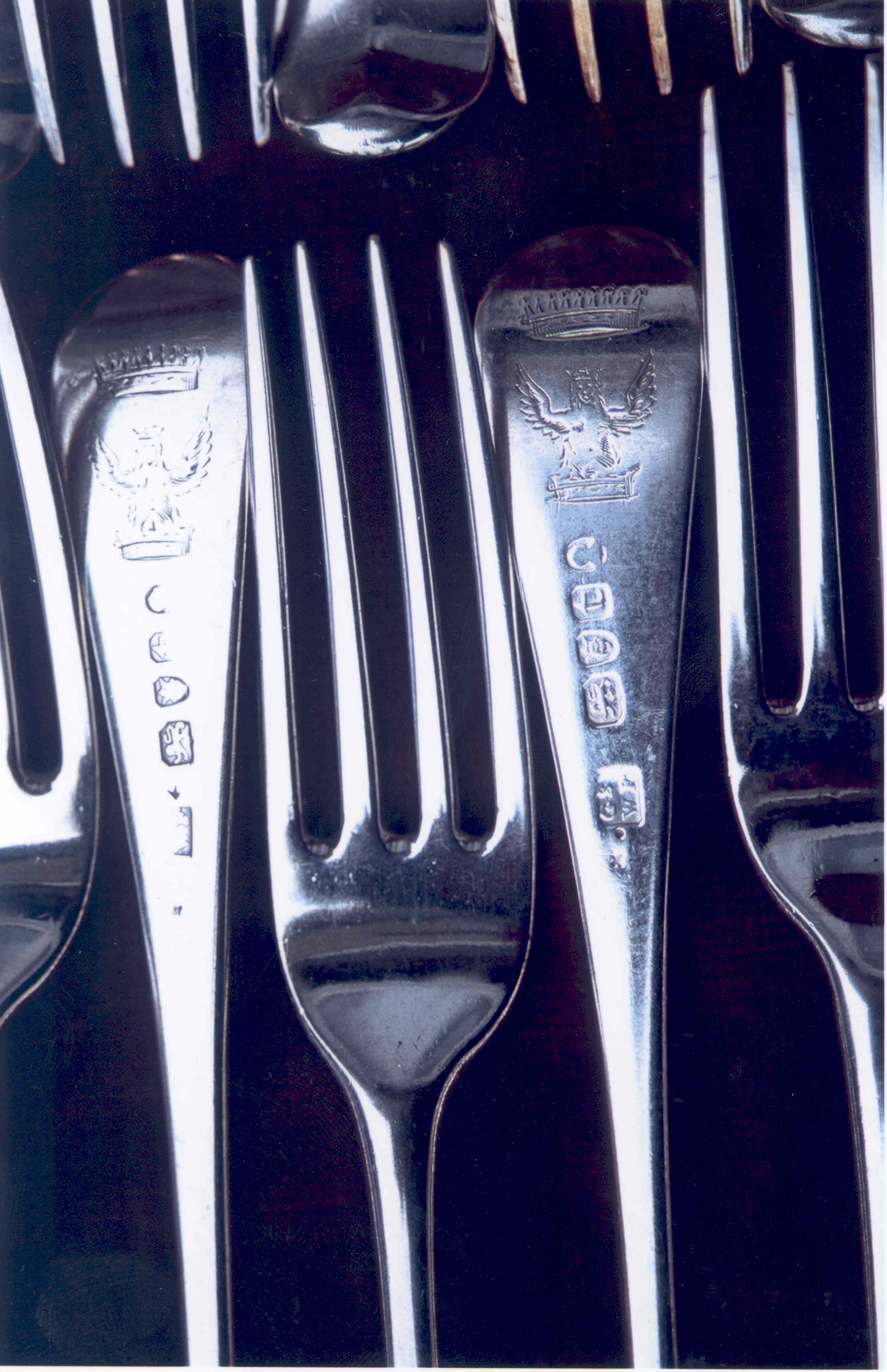 Close up of Georgian forks